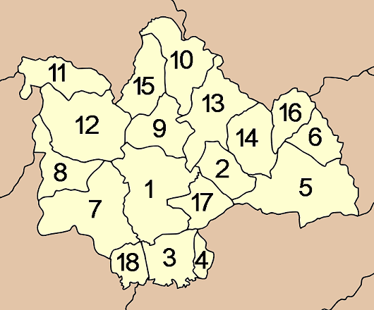 Map of Kalasin province, Thailand, with the districts (Amphoe) numbered. Mueang Kalasin (อำเภอเมืองกาฬสินธุ์) Na Mon (อำเภอนามน) Kamalasai (อำเภอกมลาไสย) Rong Kham (อำเภอร่องคำ) Kuchinarai (อำเภอกุฉินารายณ์) Khao Wong (อำเภอเขาวง) Yang Talat (อำเภอยางตลาด) Huai Mek (อำเภอห้วยเม็ก) Sahatsakhan (อำเภอสหัสขันธ์) Kham Muang (อำเภอคำม่วง) Tha Khantho (อำเภอท่าคันโท) Nong Kung Si (อำเภอหนองกุงศรี) Somdet (อำเภอสมเด็จ) Huai Phueng (อำเภอห้วยผึ้ง) Sam Chai (sub-district) (กิ่งอำเภอสามชัย) Na Khu (sub-district) (กิ่งอำเภอนาคู) Don Chan (sub-district) (กิ่งอำเภอดอนจาน) Khong Chai (sub-district) (กิ่งอำเภอฆ้องชัย)